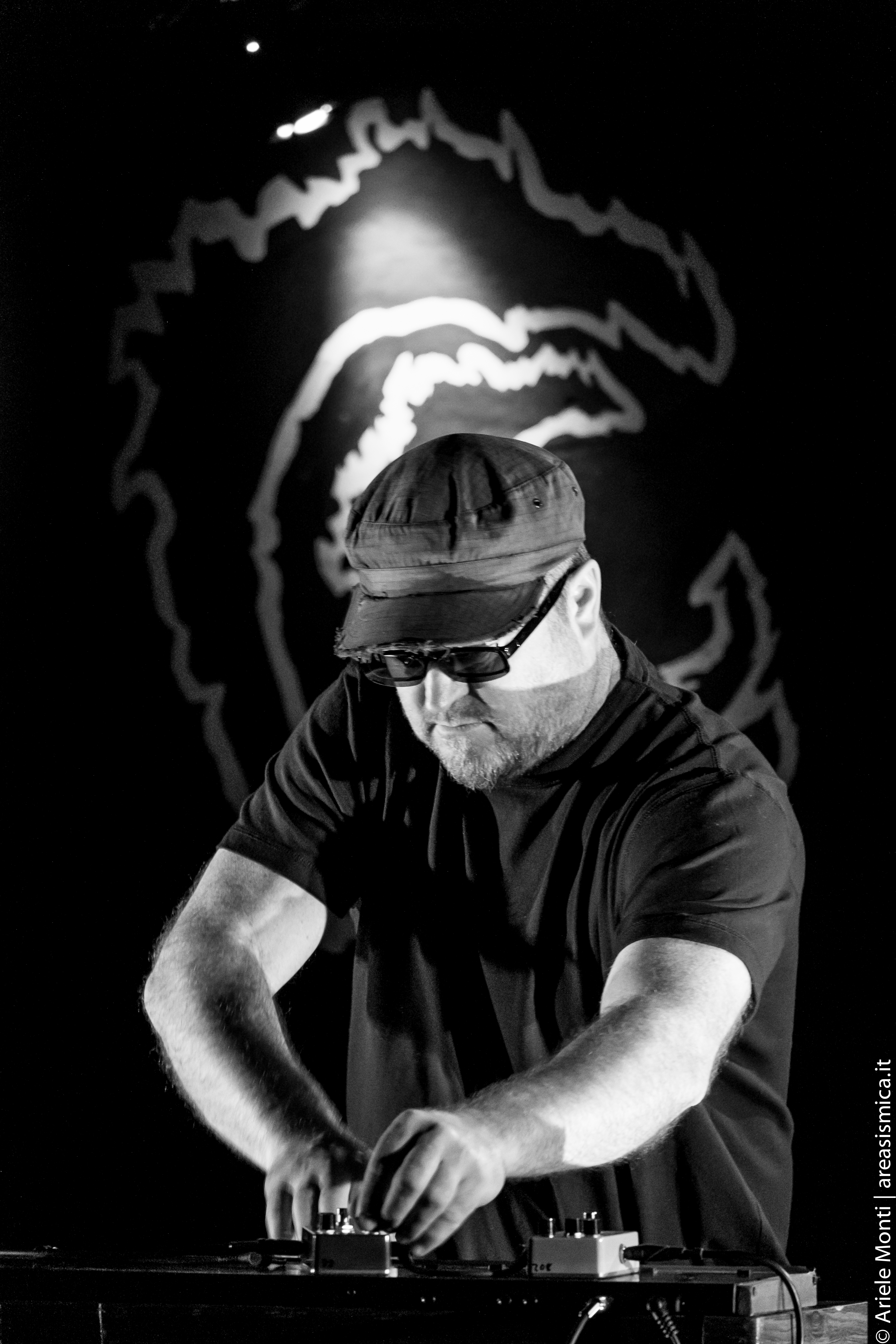 Thollem McDonas on electric at Area Sismica, IT(2015) by Ariele Monti